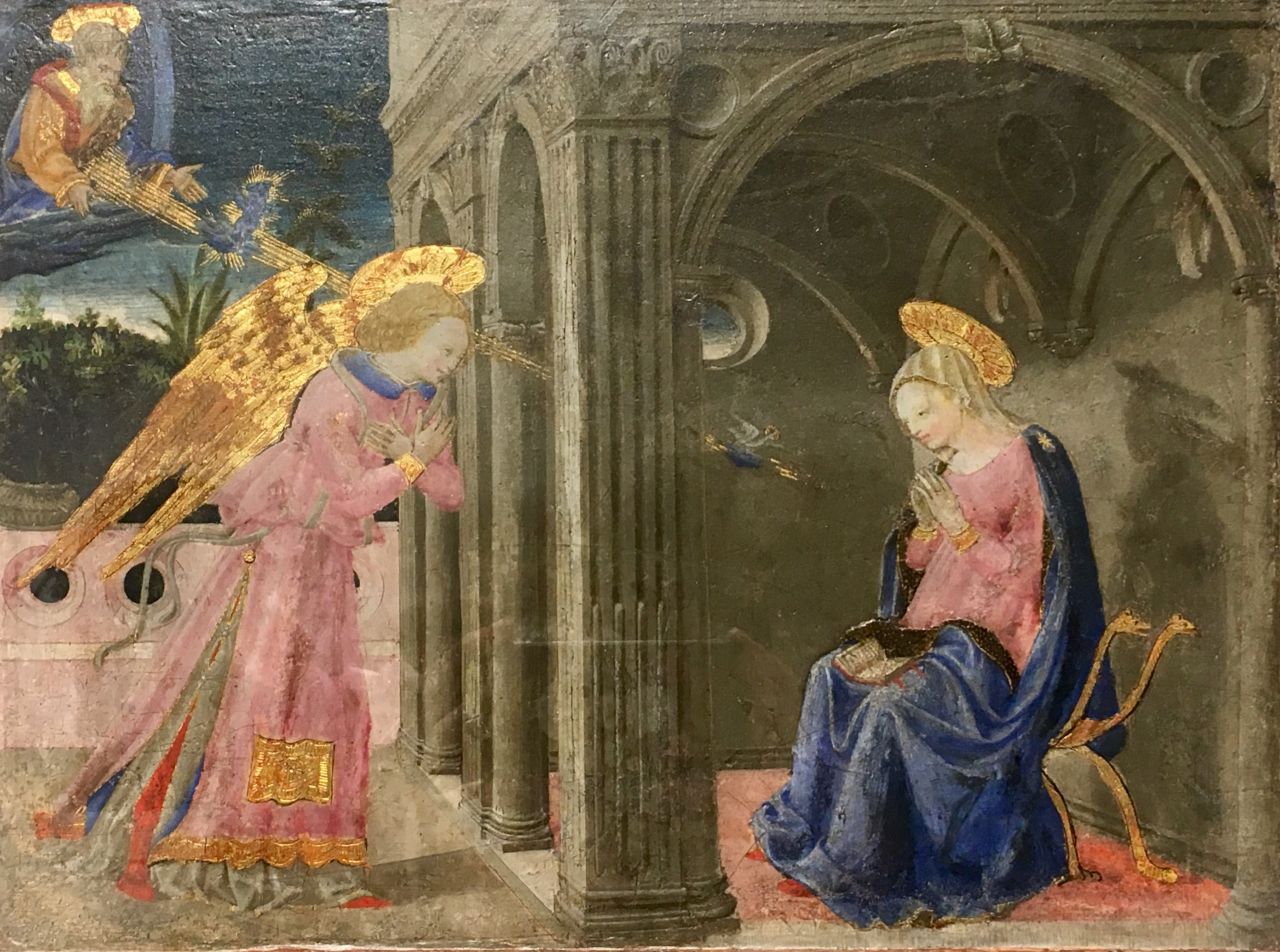 About 1440 - tempera on panel - This is one of the best works by Apollonio, in which, for the recent restoration, it can be obseved the high quality of this painting's drafting and fineness of details.